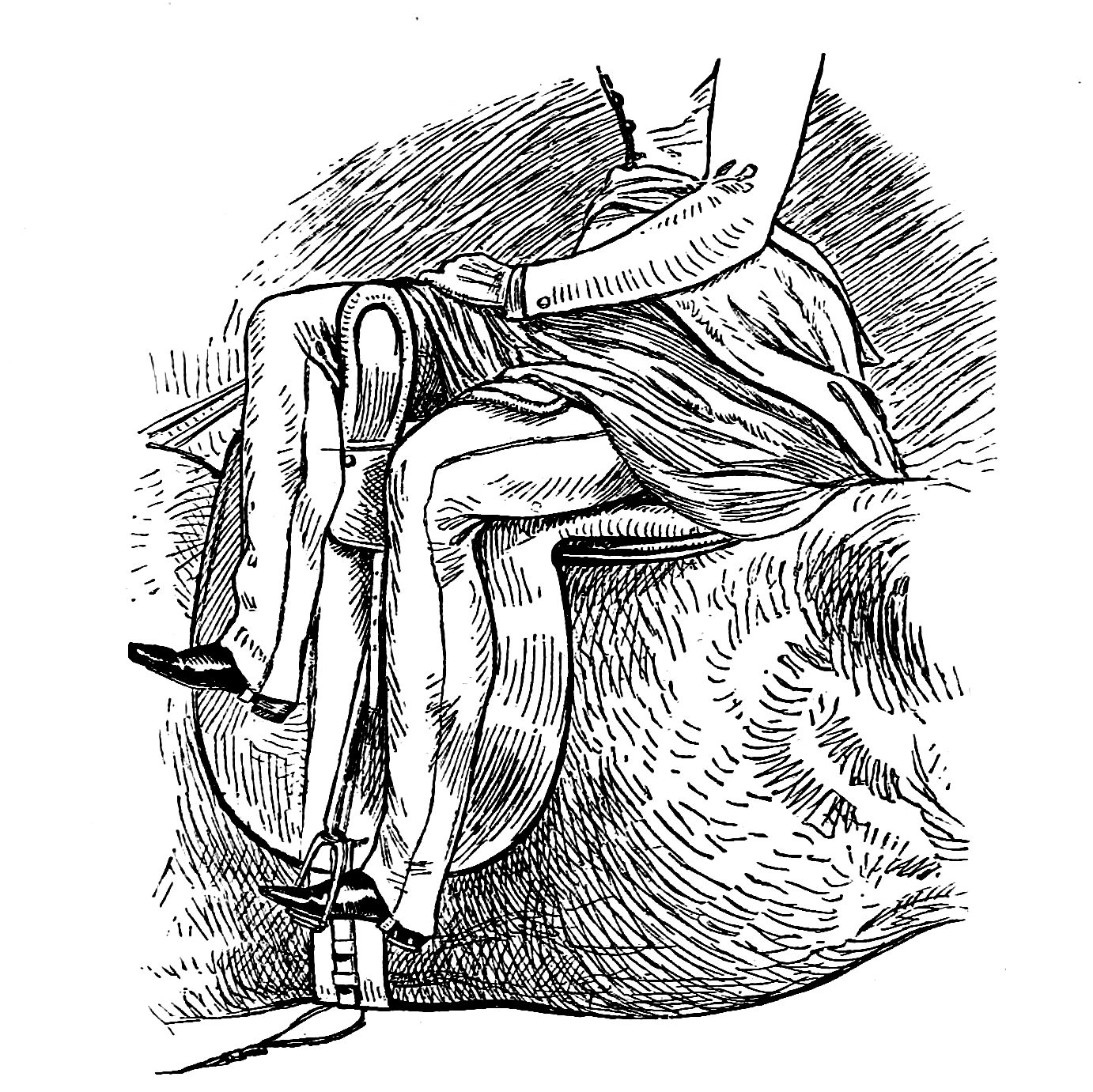 Image from book Horsemanship for Women by Theodore Hoe Mead